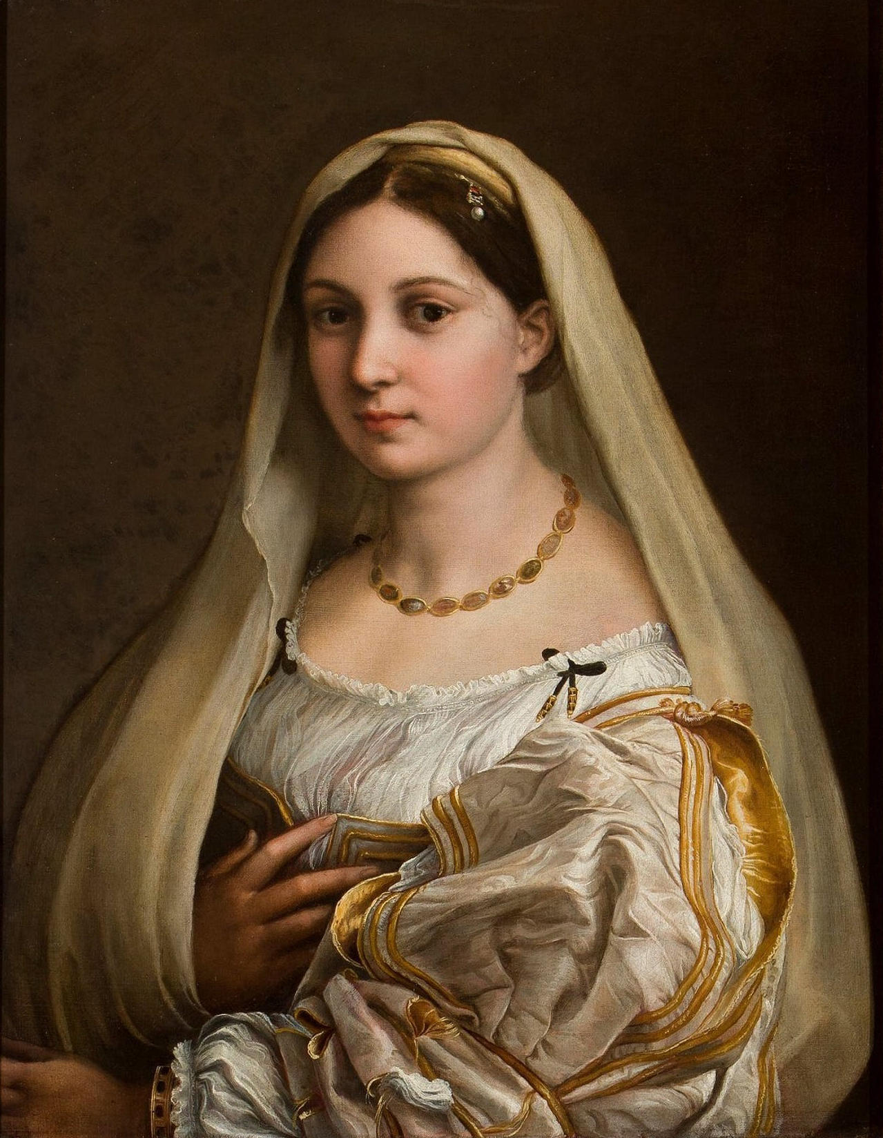 “Woman with a veil (La Donna Velata)”